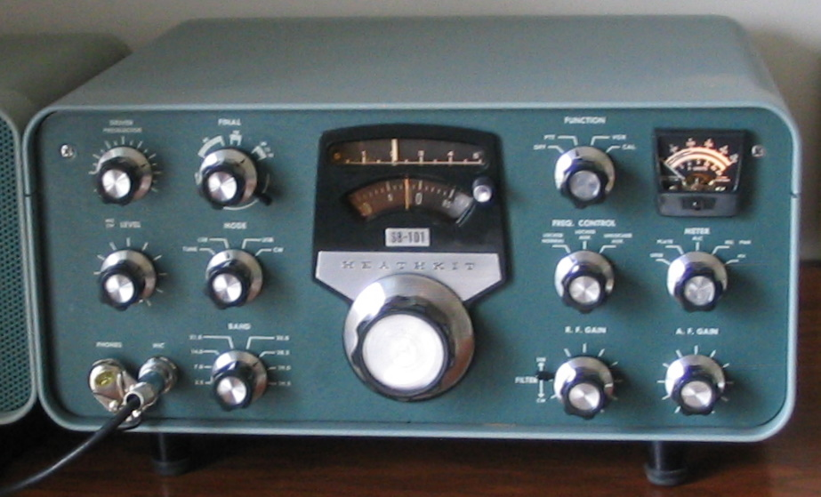 Heathkit SB-101 transceiver